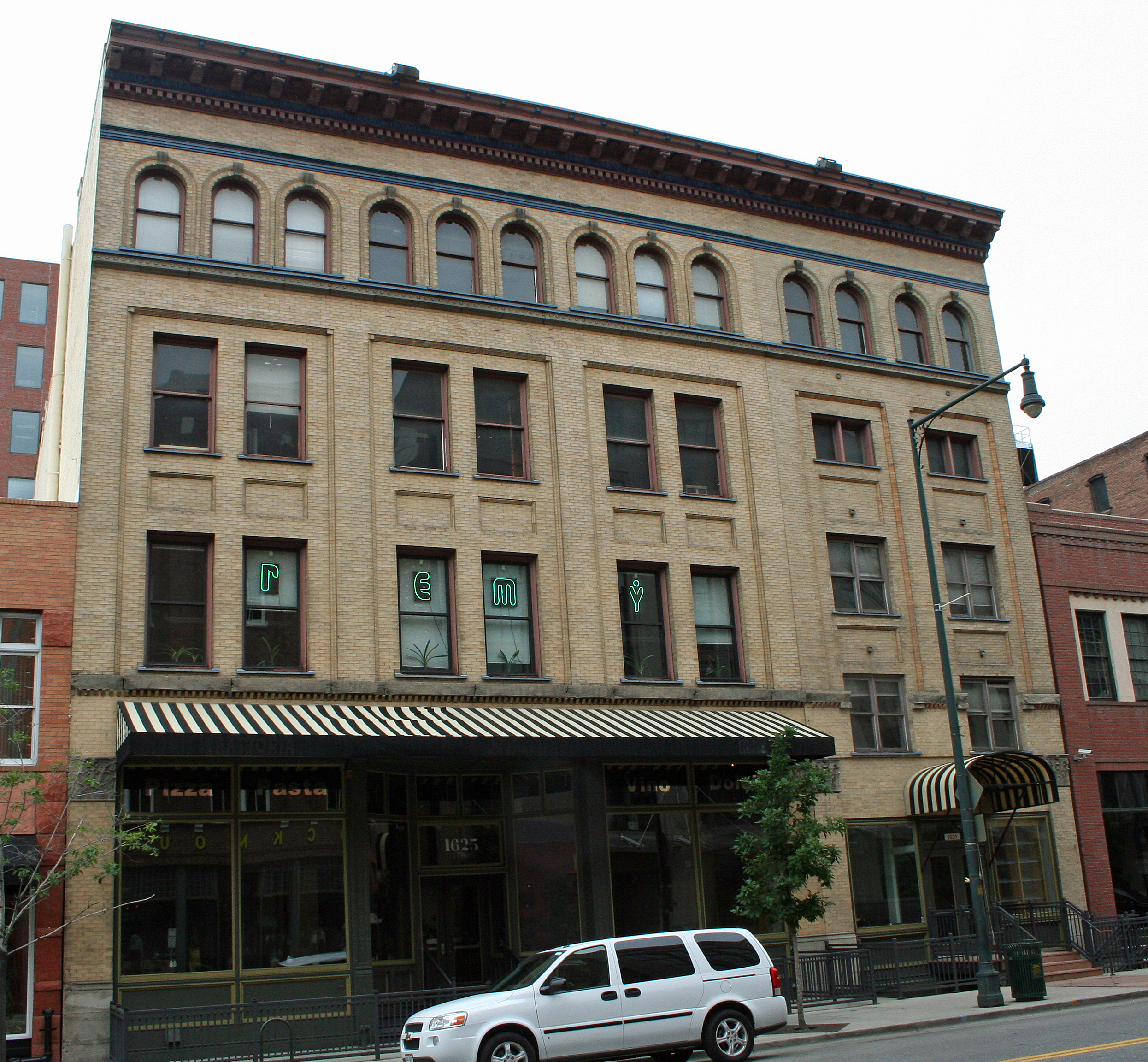 The Peters Paper Company Warehouse at 1625 Wazee Street in Denver, Colorado